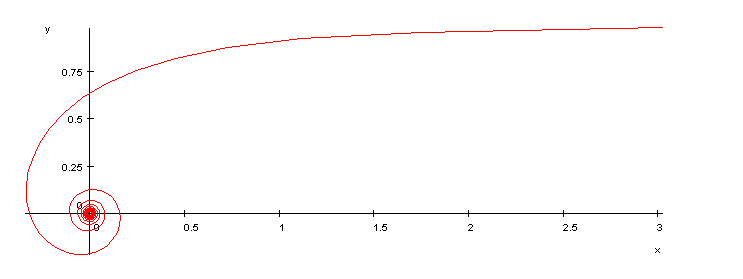 hyperbolic spiral